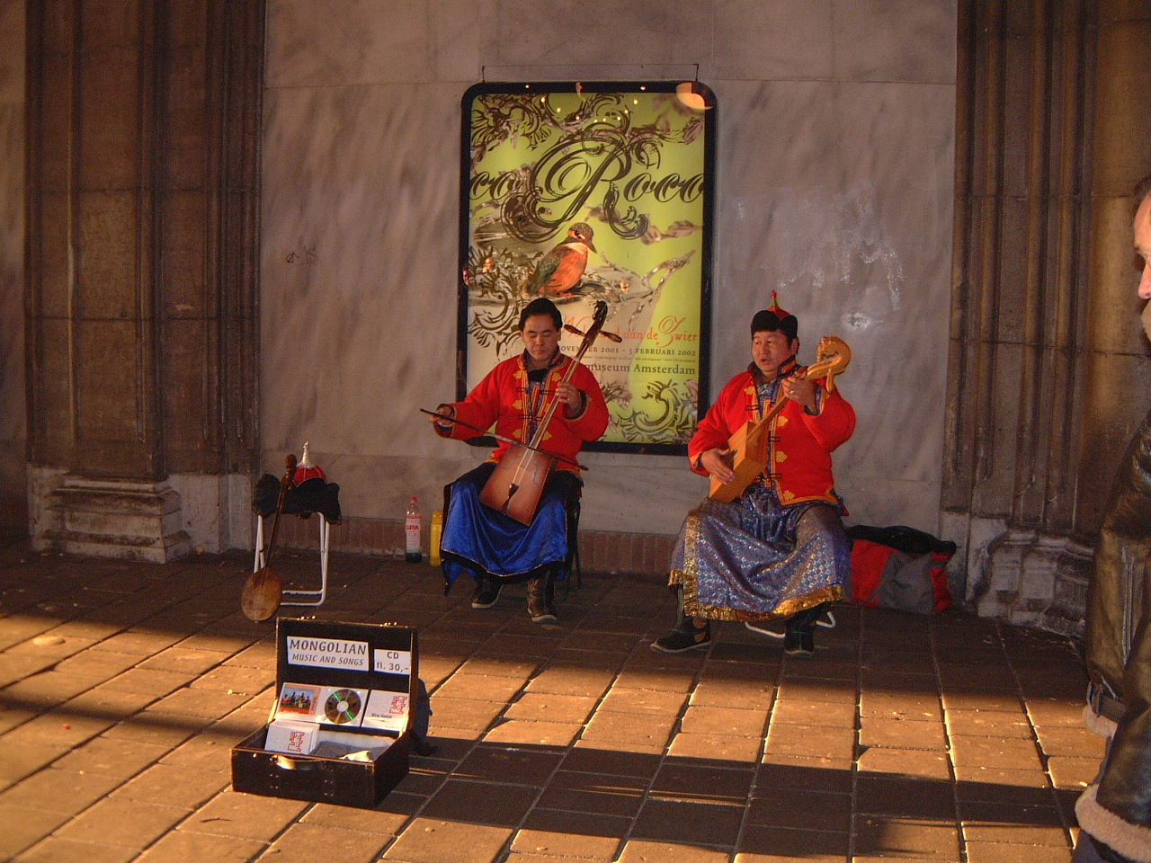 Mongolian throat singers, musicians from the group "Altai Hangai" in Amsterdam